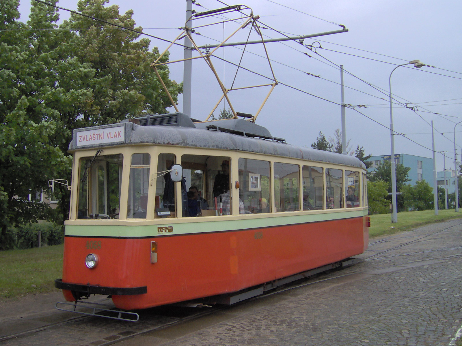 Historical tram (type 4MT) nr. 4058 in Brno